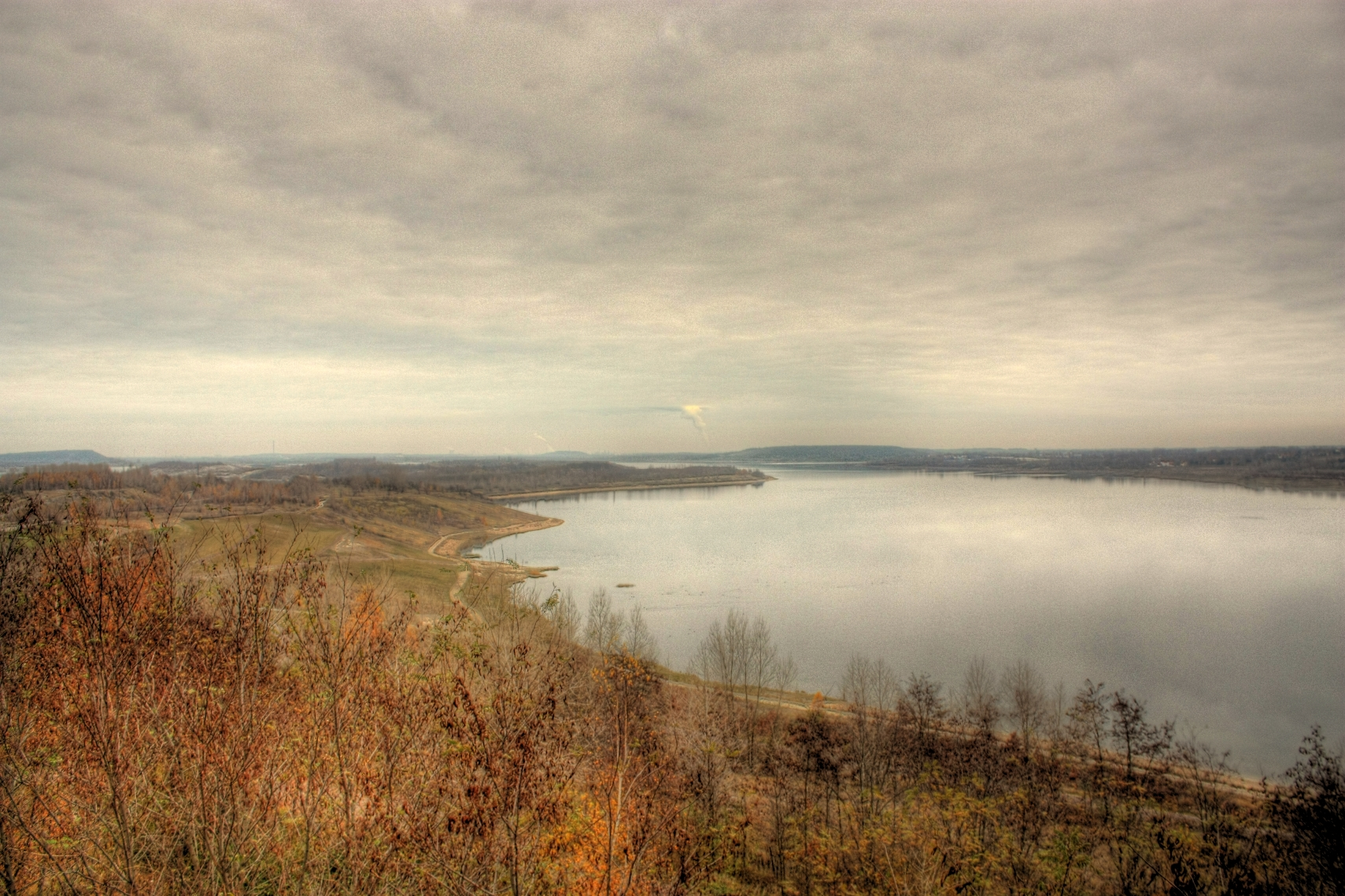 Geiseltalsee, Saxony-Anhalt, Germany, view from viewing tower